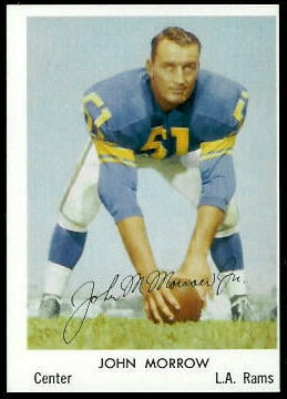 A 1959 promotional image of Los Angeles Rams player John Morrow.